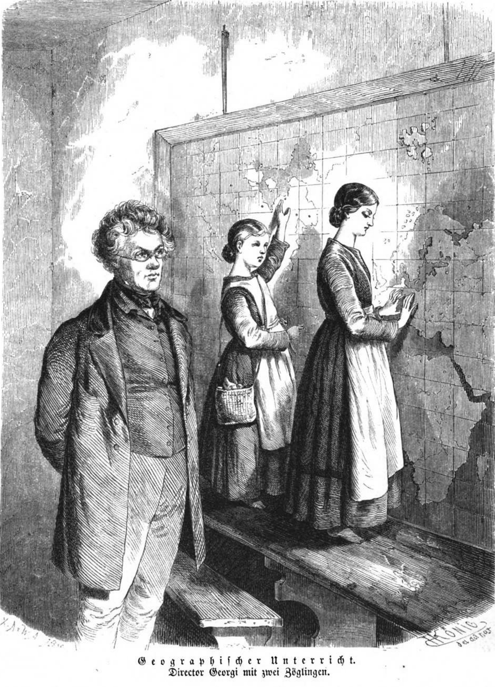 no caption